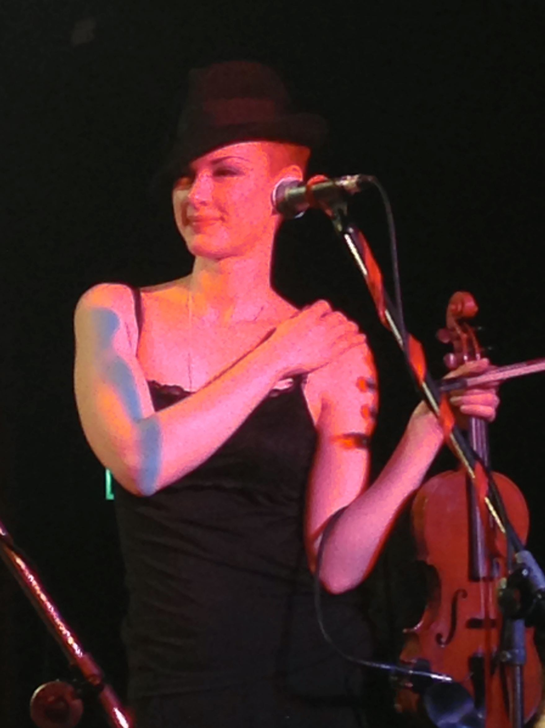 Erica Nockalls, violinist for The Wonder Stuff, at The Corner Hotel, Melbourne, Australia – 28 February 2014.